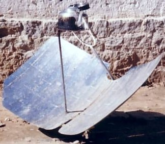 I took this photo in 1993. John Hill 01:05, 30 January 2007 (UTC)